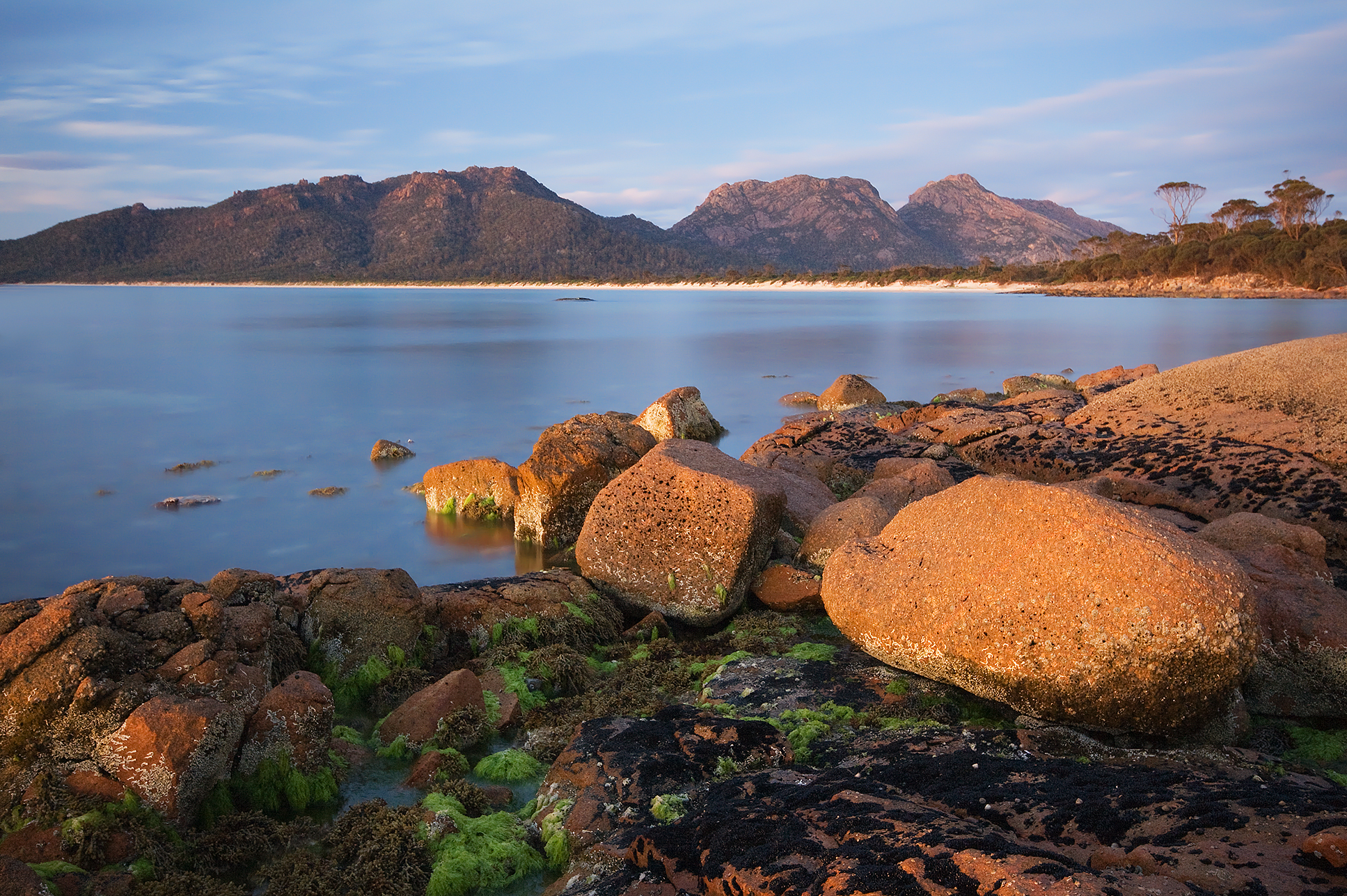 The Hazards (Left to Right: Mount Mayson, Mount Amos, Mount Dove and Mount Parsons), From Hazards Beach, Freycinet Peninsula, Tasmania, Australia